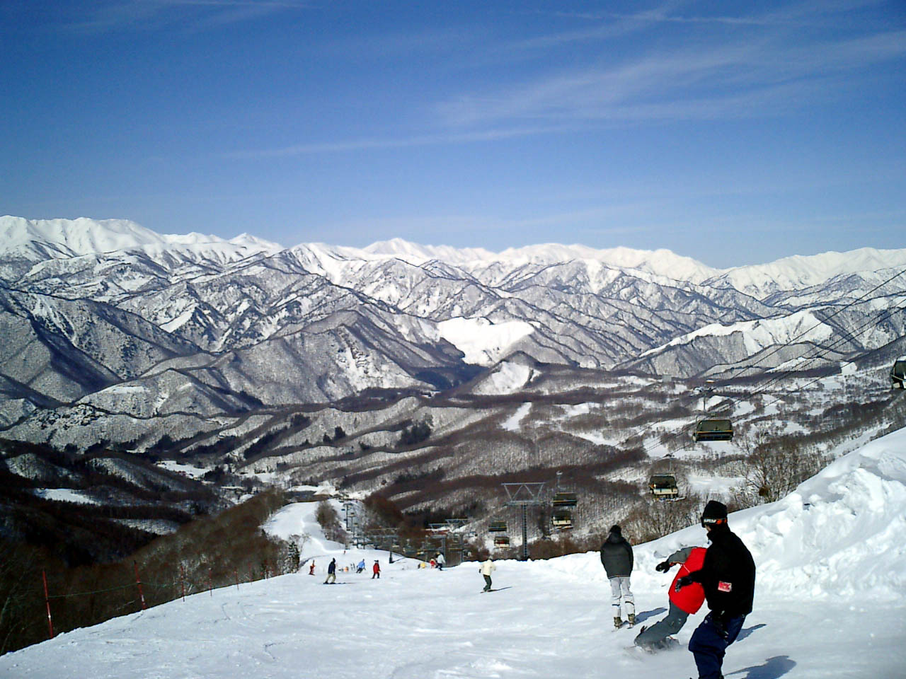 Minakami Hodaigi Ski Area in Minakami Town, Gunma Prefecture, Japan